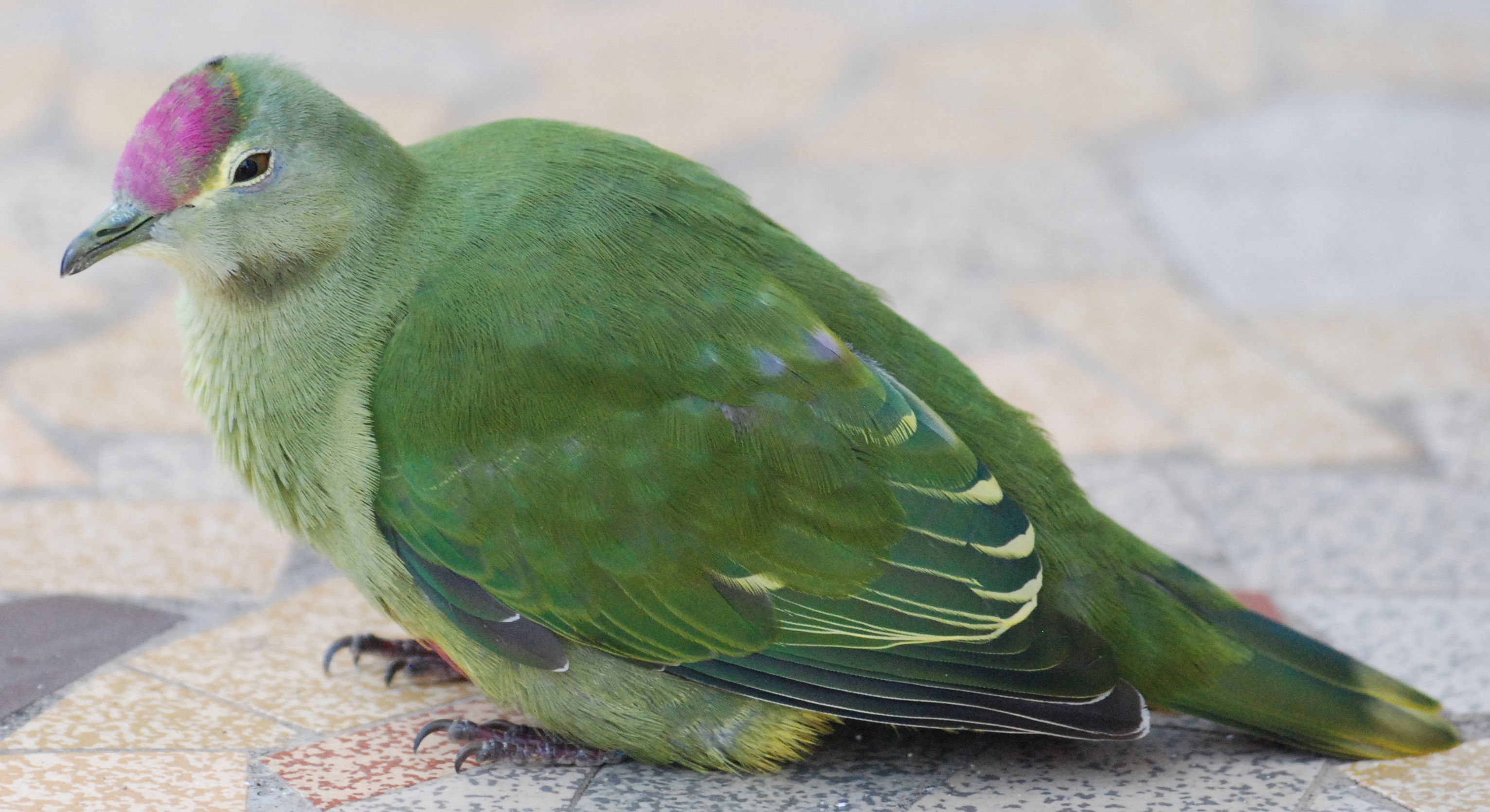 A sub-adult Red-bellied Fruit Dove on the mainland of New Caledonia.